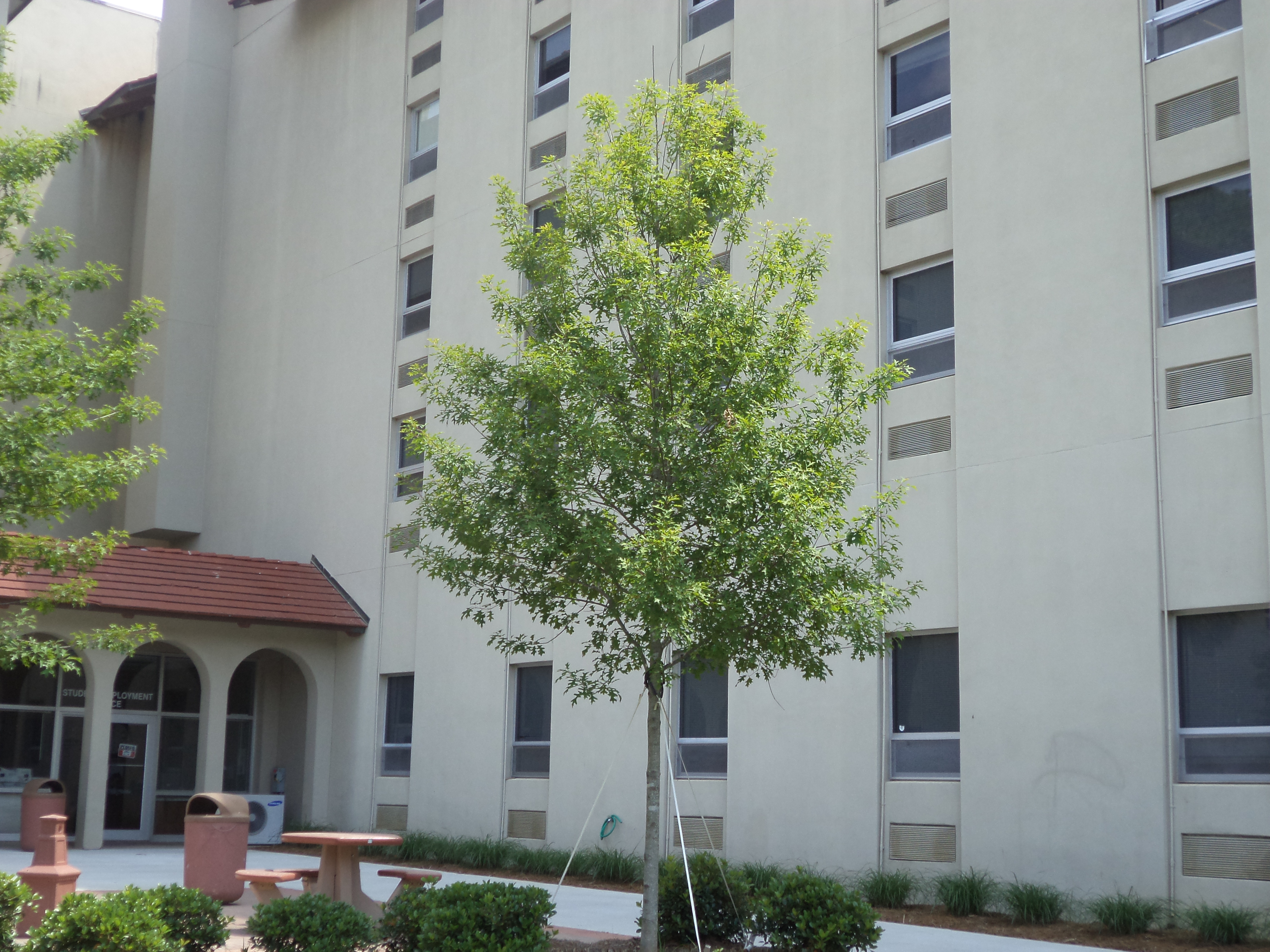 A 'Sangria' Nuttal Oak (Quercus texana) at Valdosta State University, May 2013